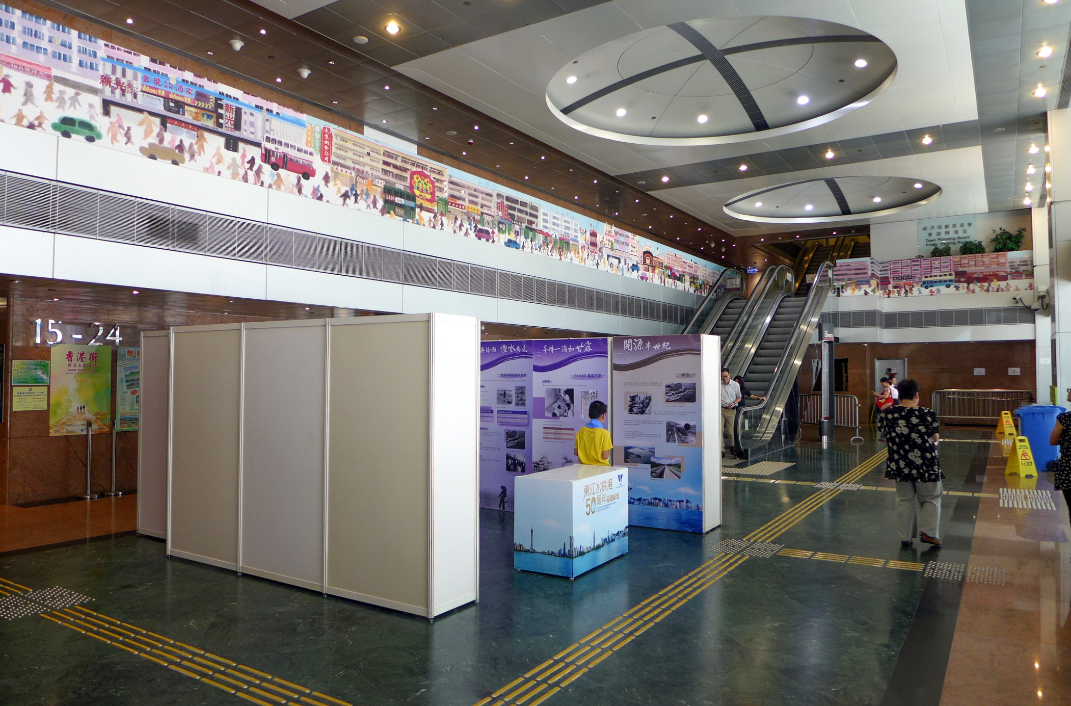 North Point Government Offices Lobby